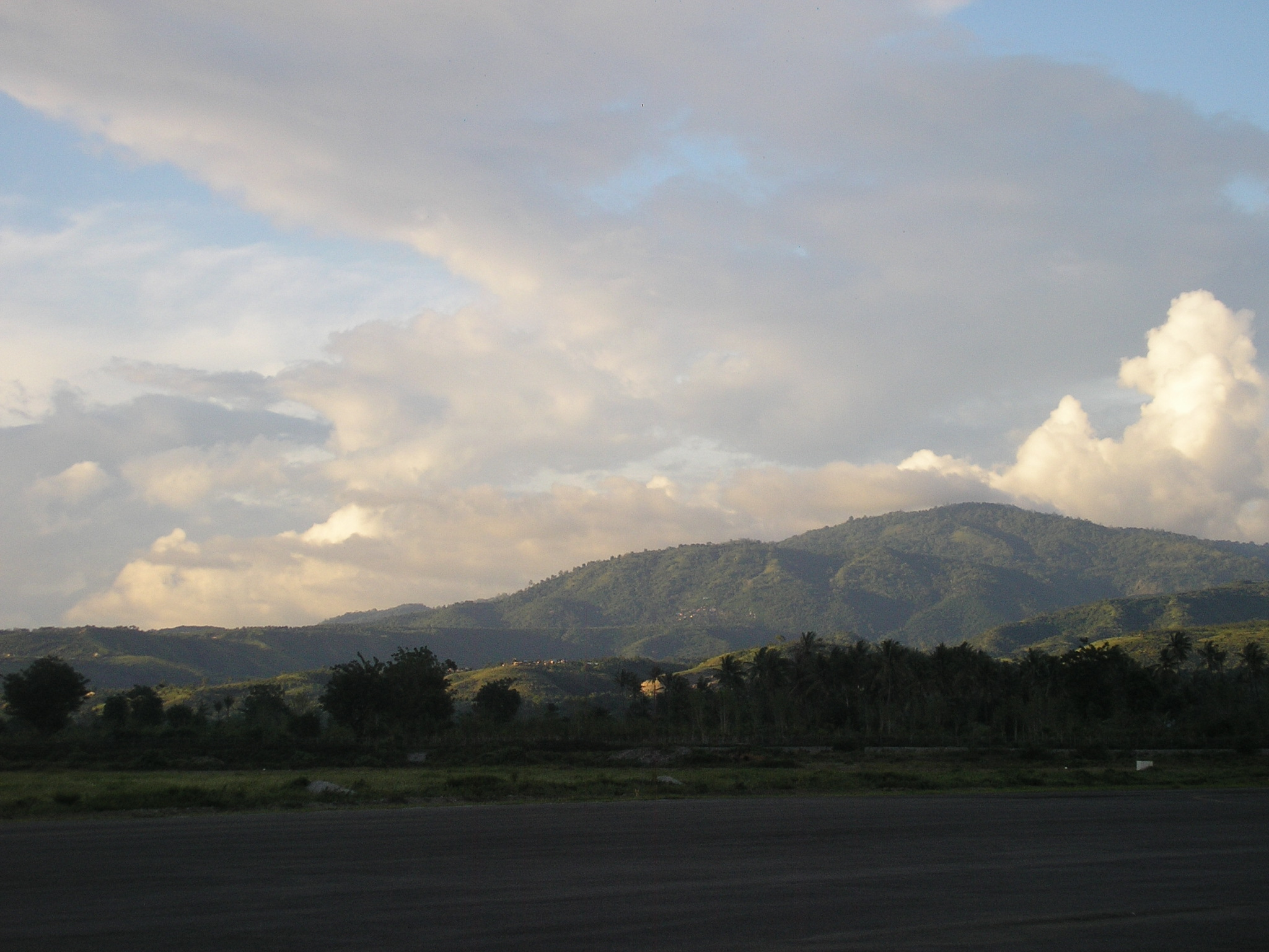 View at Mutiara Airport, Palu, Central Sulawesi, Indonesia